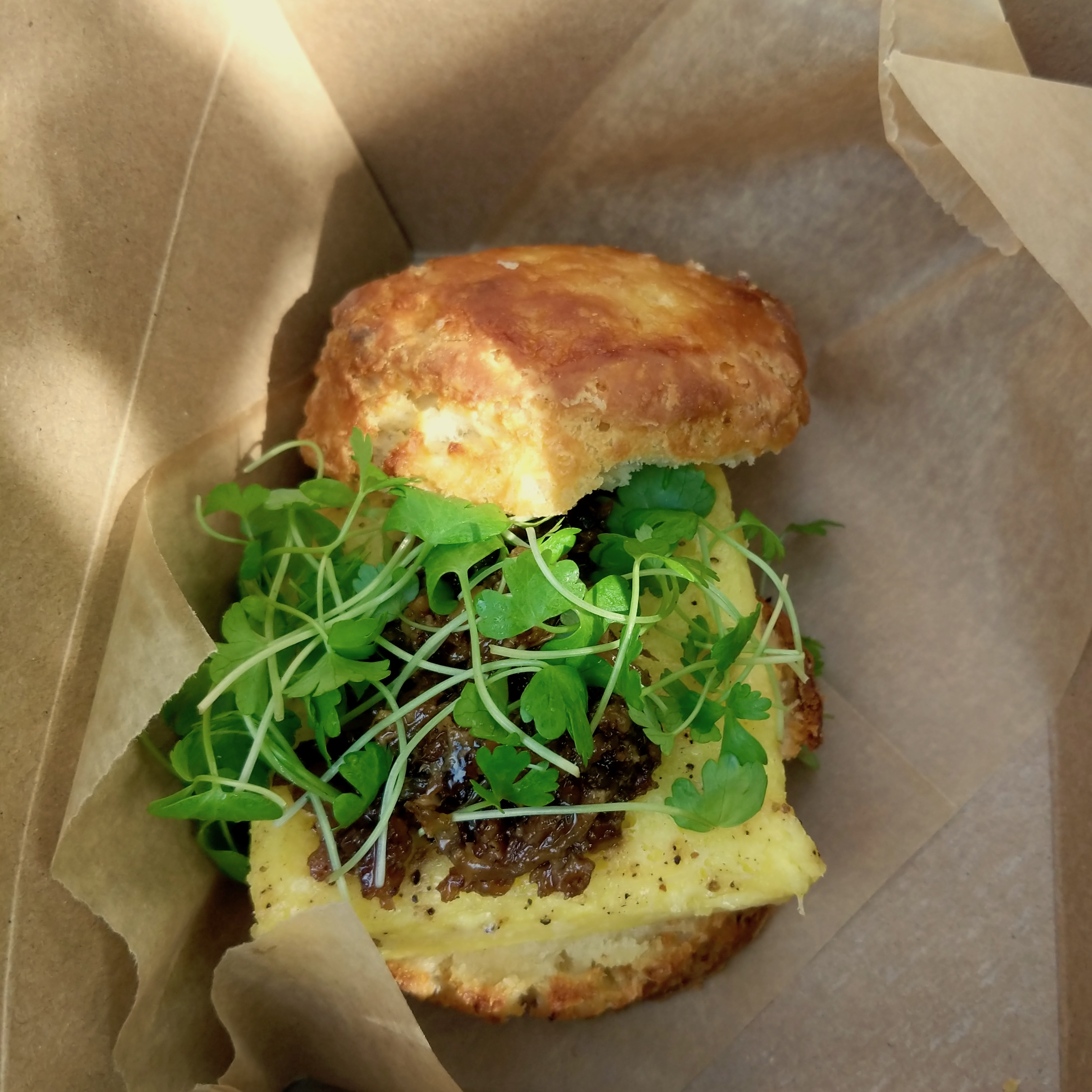 A breakfast sandwich featuring eggs, bacon jam, and microgreens, served on a buttermilk biscuit and packaged in brown paper, purchased from Poppy's Catering in Brooklyn NY. Uploaded for the purpose of adding an additional illustration of a breakfast sandwich to the "Biscuit (bread)" Wikipedia page.